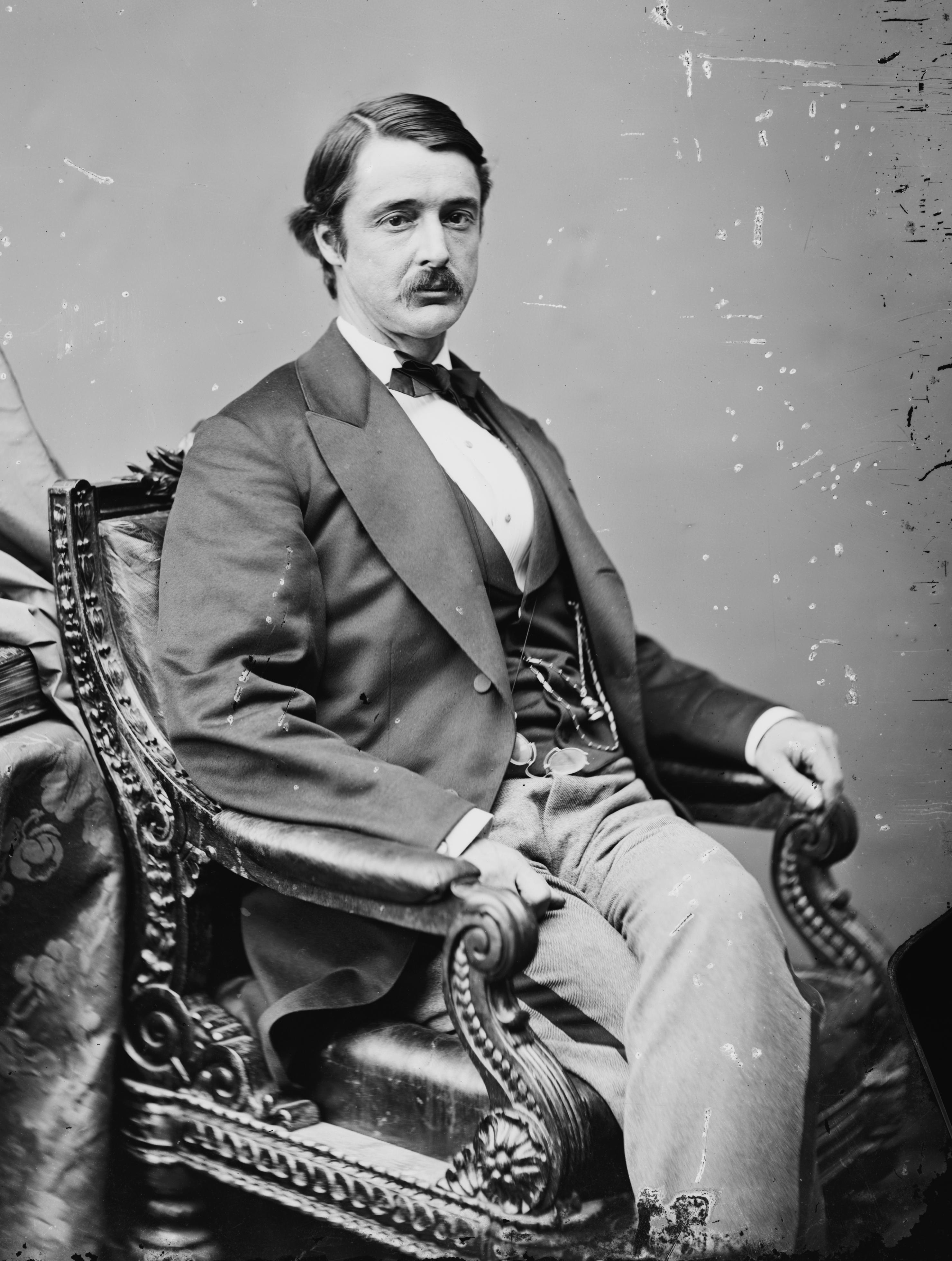 William Sprague (1830-1915). Library of Congress description: "Hon. Wm. Sprague of R.I."